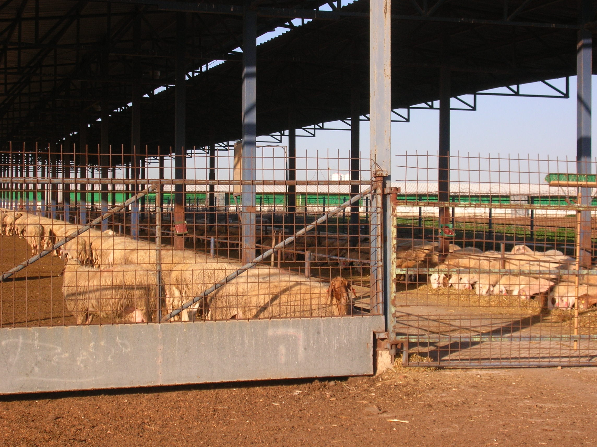 Sheep in Geva, taken by myself, jan 09.